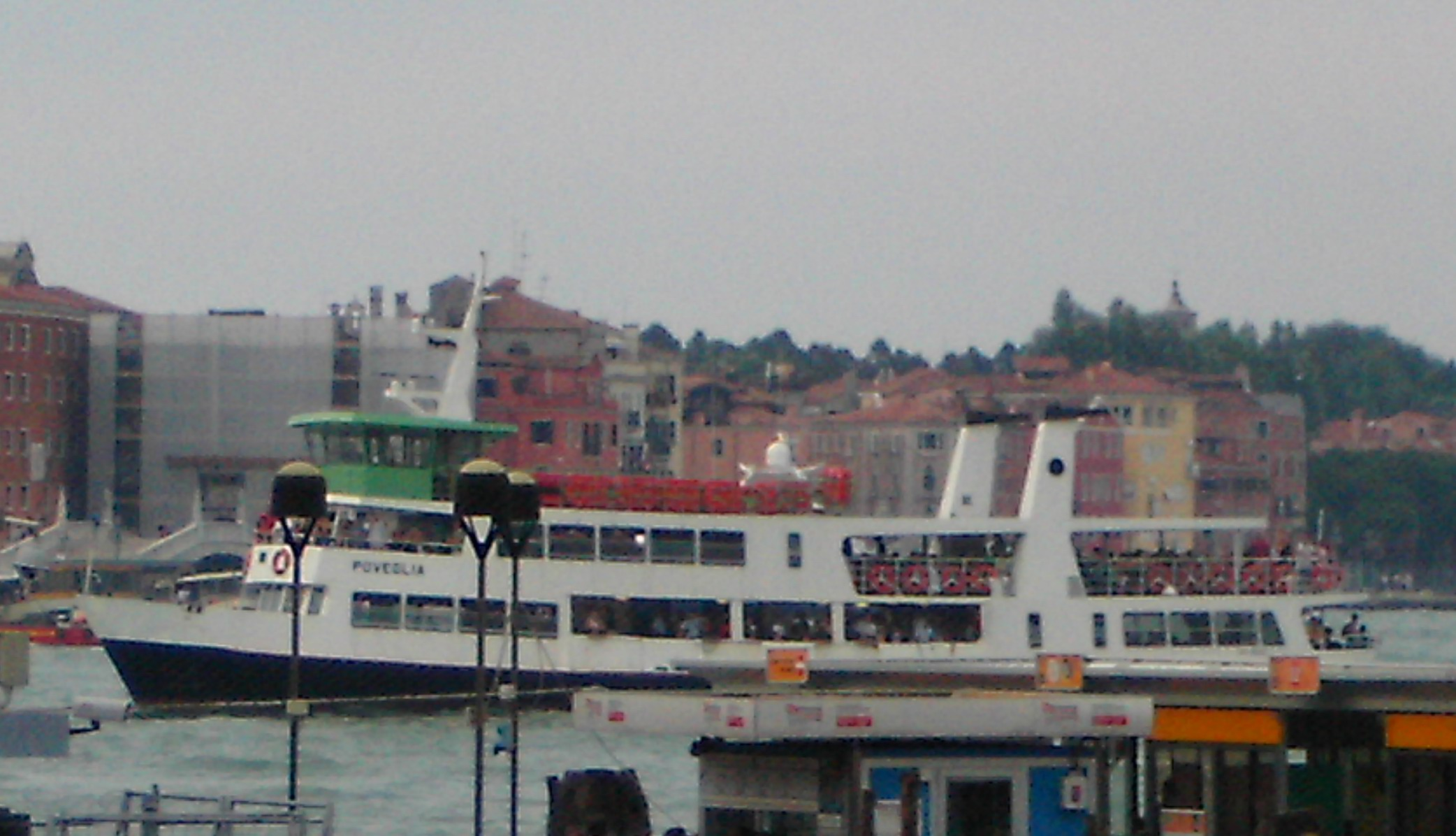 Ship of public service (ACTV) in Venice, Italy